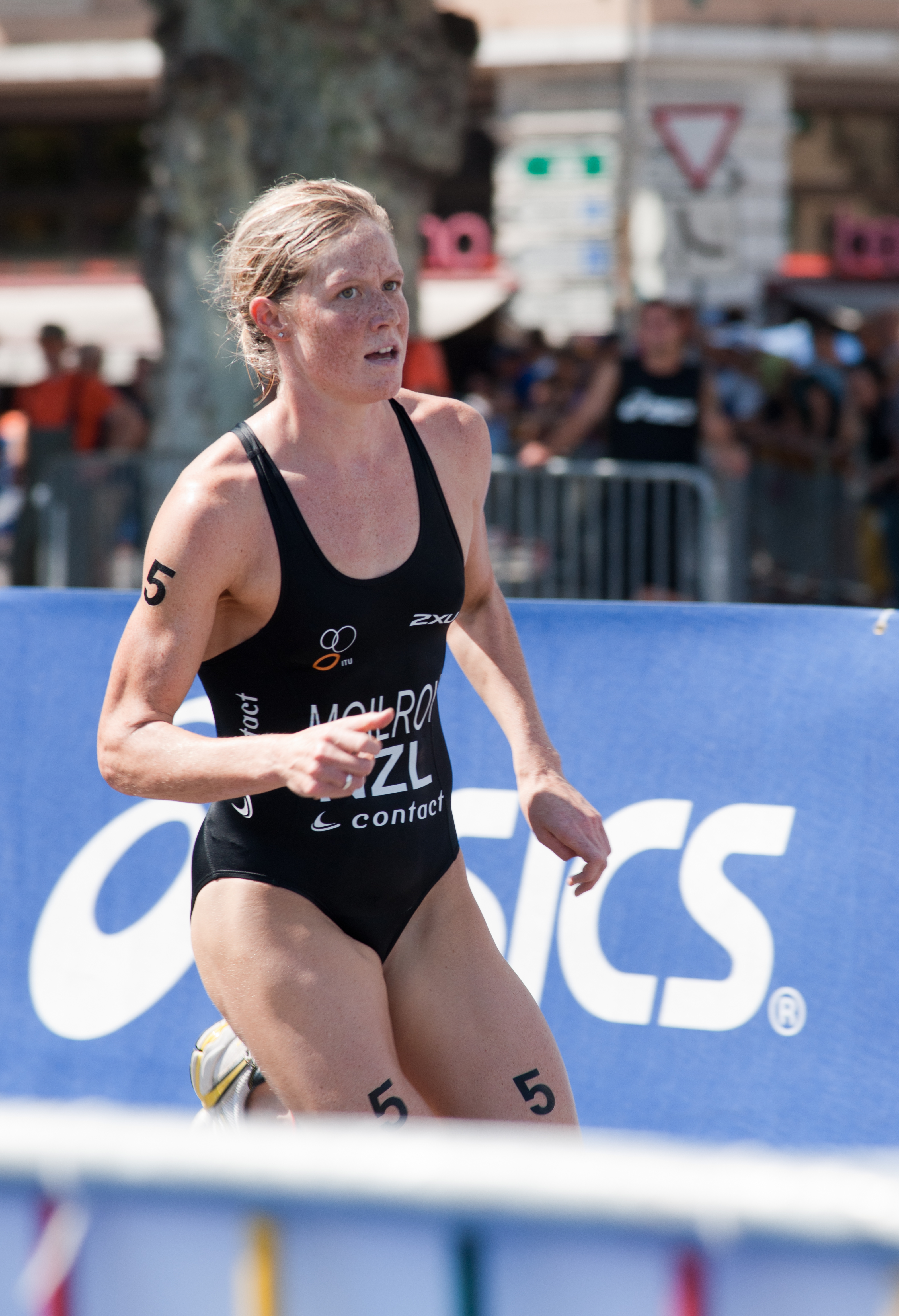 2010 ITU Sprint Distance Triathlon World Championships, Lausanne, Switzerland.